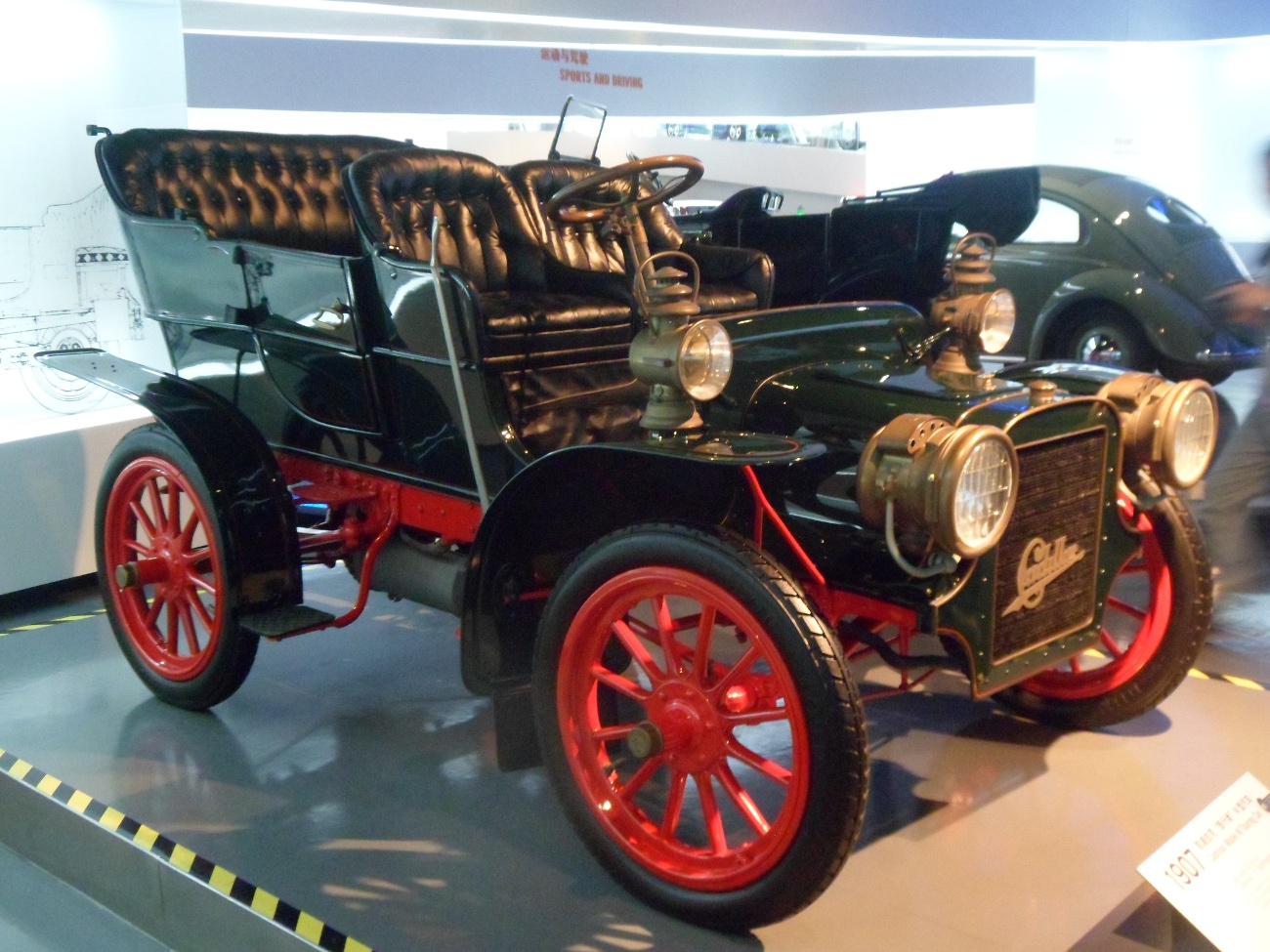 1907 Cadillac Model M Touring photographed at the Shanghai Automobile Museum, Anting, China.